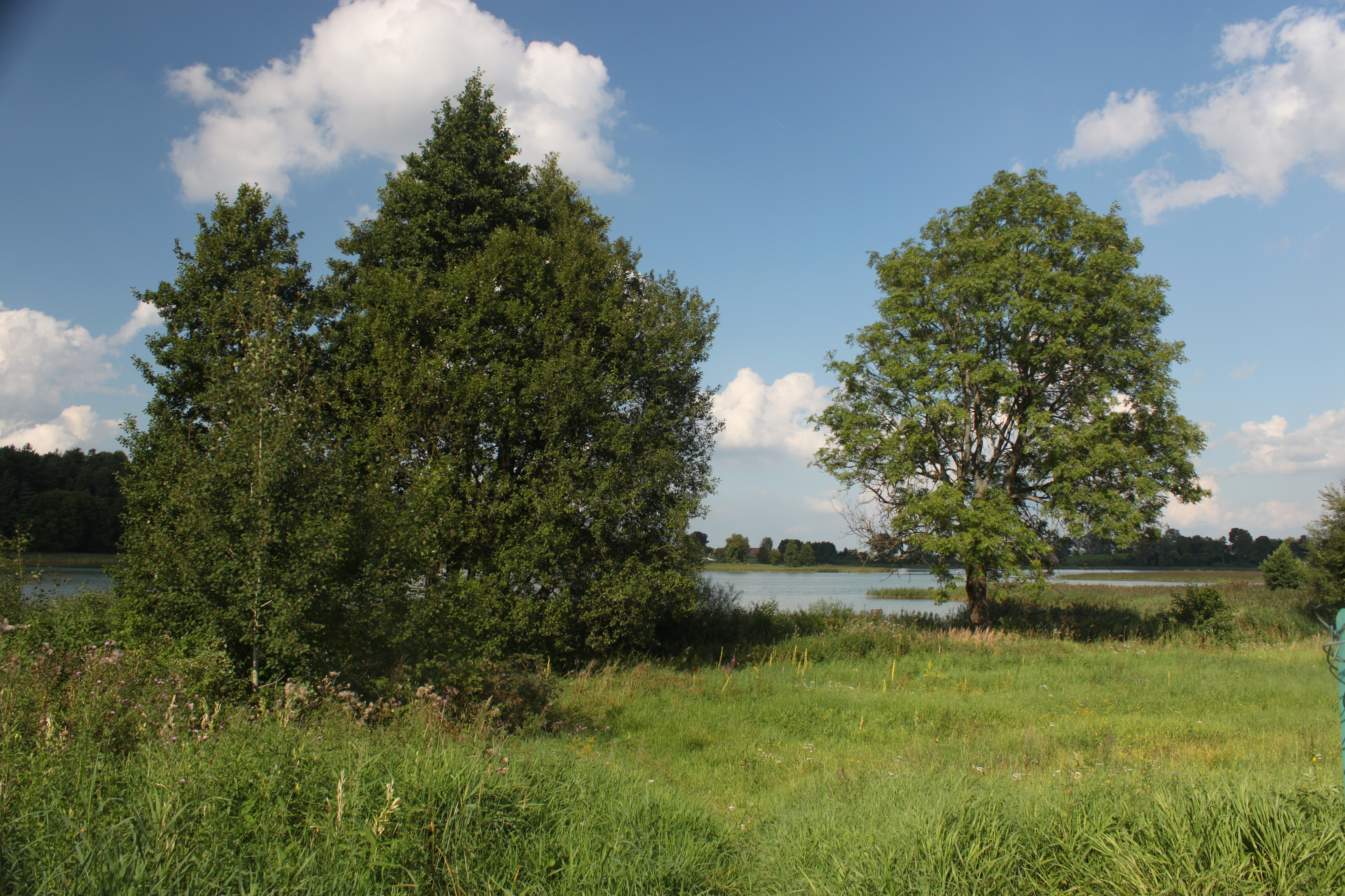 Ruskie Lake in Rusek Wielki.